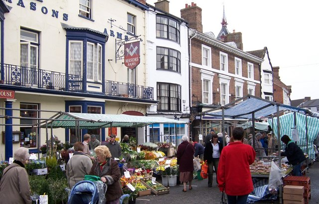 Street Market-Louth. Nice little place, Louth. Nice to still see a town with some locally owned shops.